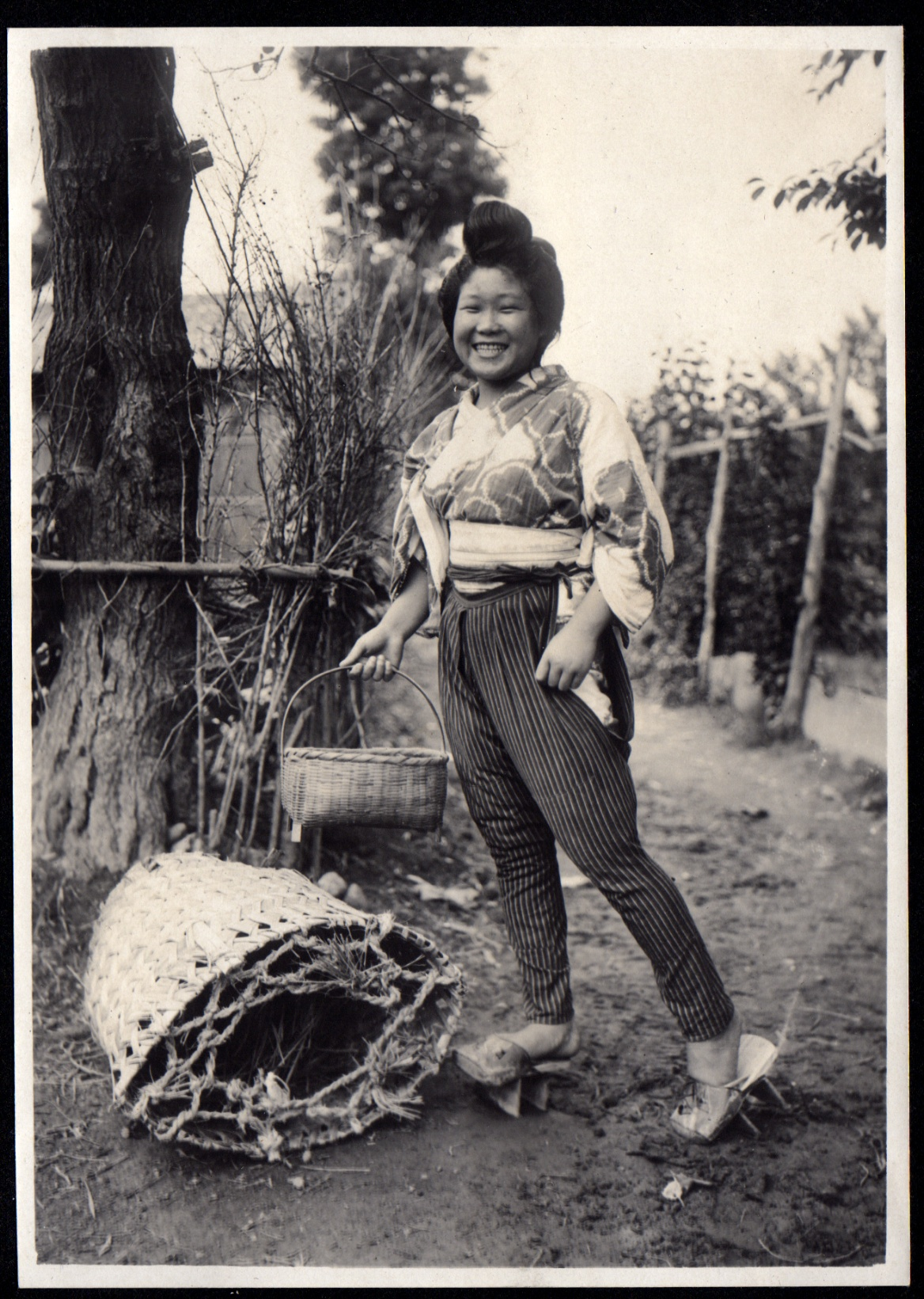 My spouse's uncle Elstner Hilton took this photo in Japan between 1914 and 1918.